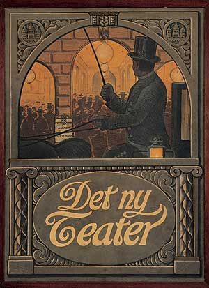 The poster from the opening in 1908 of Det Ny Teater in Copenhagen, Denmark. The identity of the artist is unknown but it is believed to be the set painter Carl Lund (1855-1940)